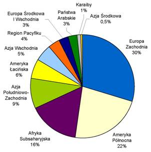 OER resources in the World, translated chart based on data from OECD report: Giving knowledge for free: the emergence of Open Educational Resources.